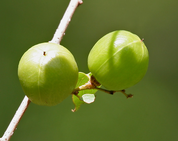 Cleistanthus collinus (Syn. Lebedieropsis orbicularis, Clutia collina)- Garari, Karra • Hindi: Garari, Garrar • Marathi: Garari • Tamil: nilaippalai, odaichi, odan, odishi • Malayalam: nilappala, odugu • Telugu: kadise, korshe, korsi, vadise • Kannada: badedarige, bodadaraga, kadagargari • Oriya: korodo • Sanskrit: indrayava, kaudigam, kutaja, nandi - in Narsapur, Medak district, Andhra Pradesh, India.